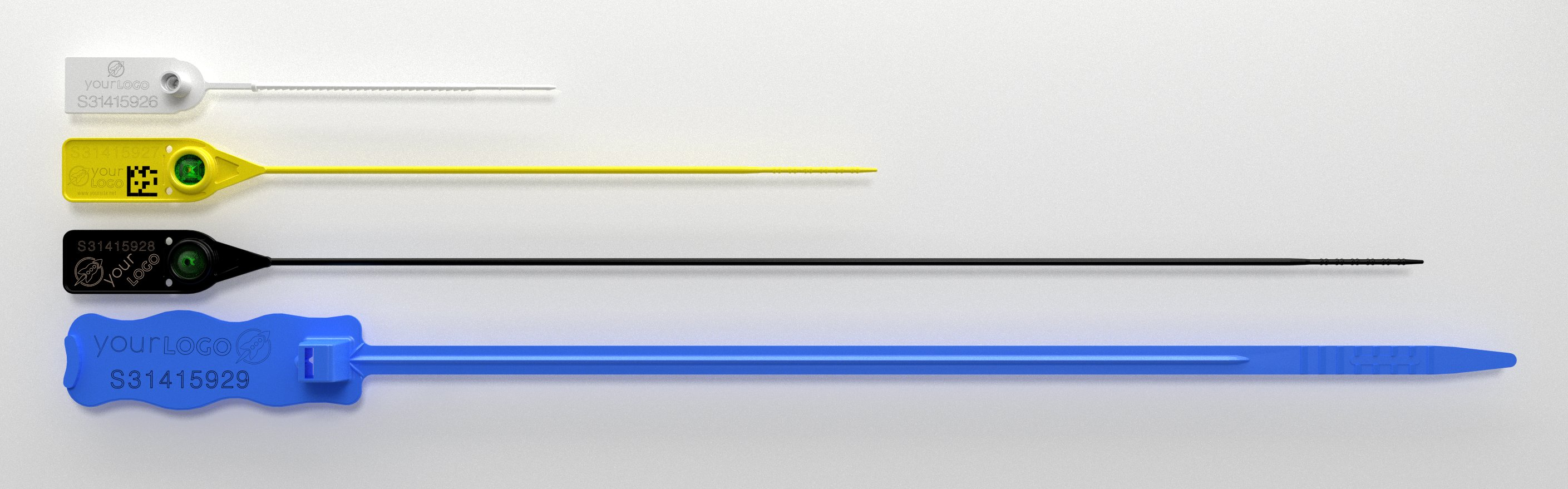 pull-up type seal